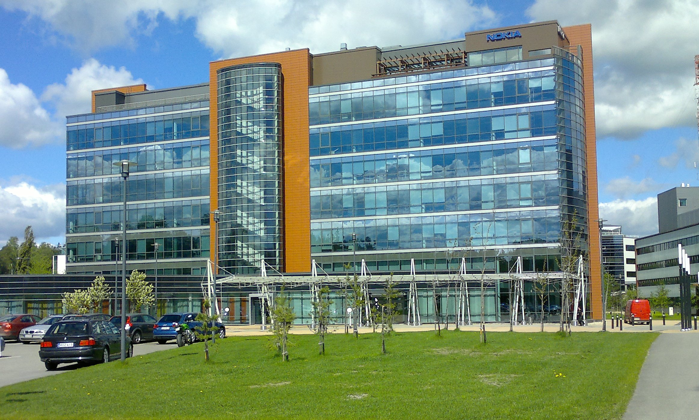 Nokia HQ